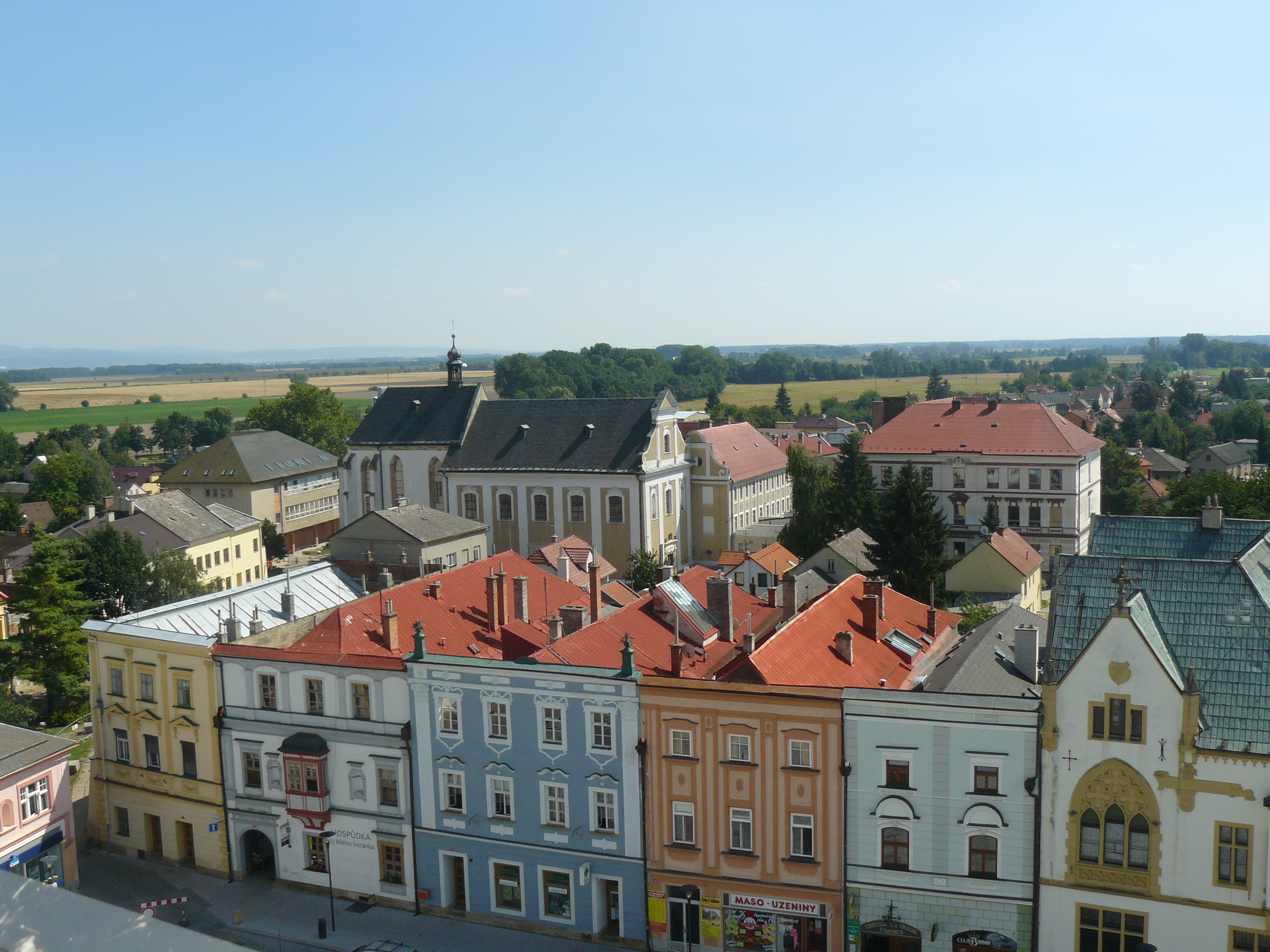 Church of the Exaltation of the Holy Cross in Uničov